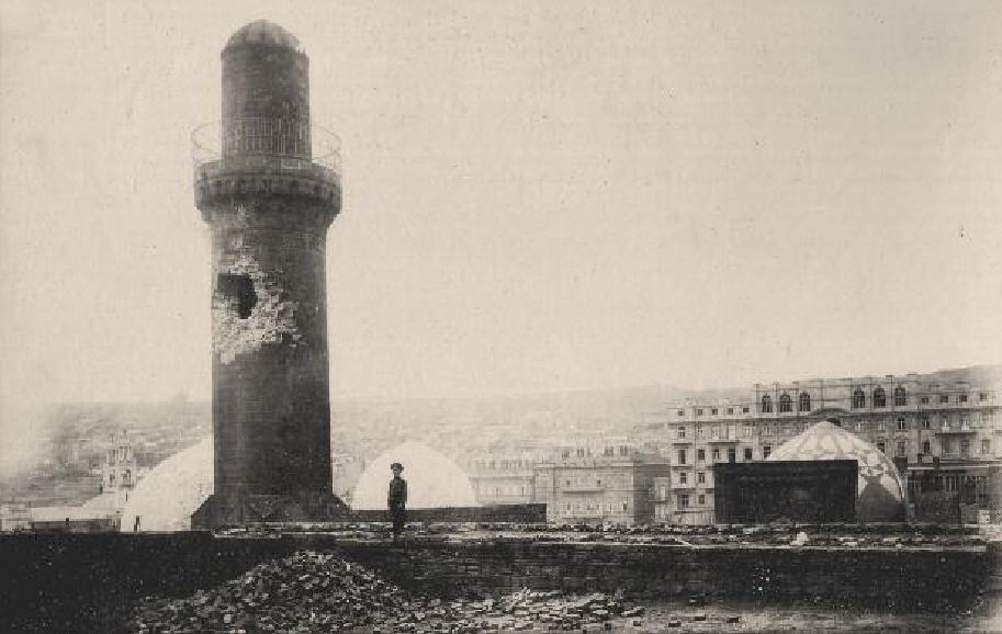 The eastern side of the Shah Mosque Minaret in Baku damaged by some artillery pieces.